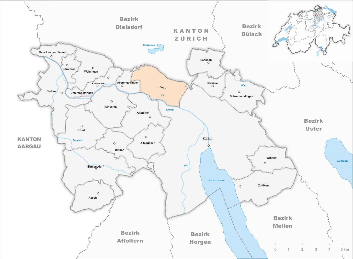 Municipality Höngg